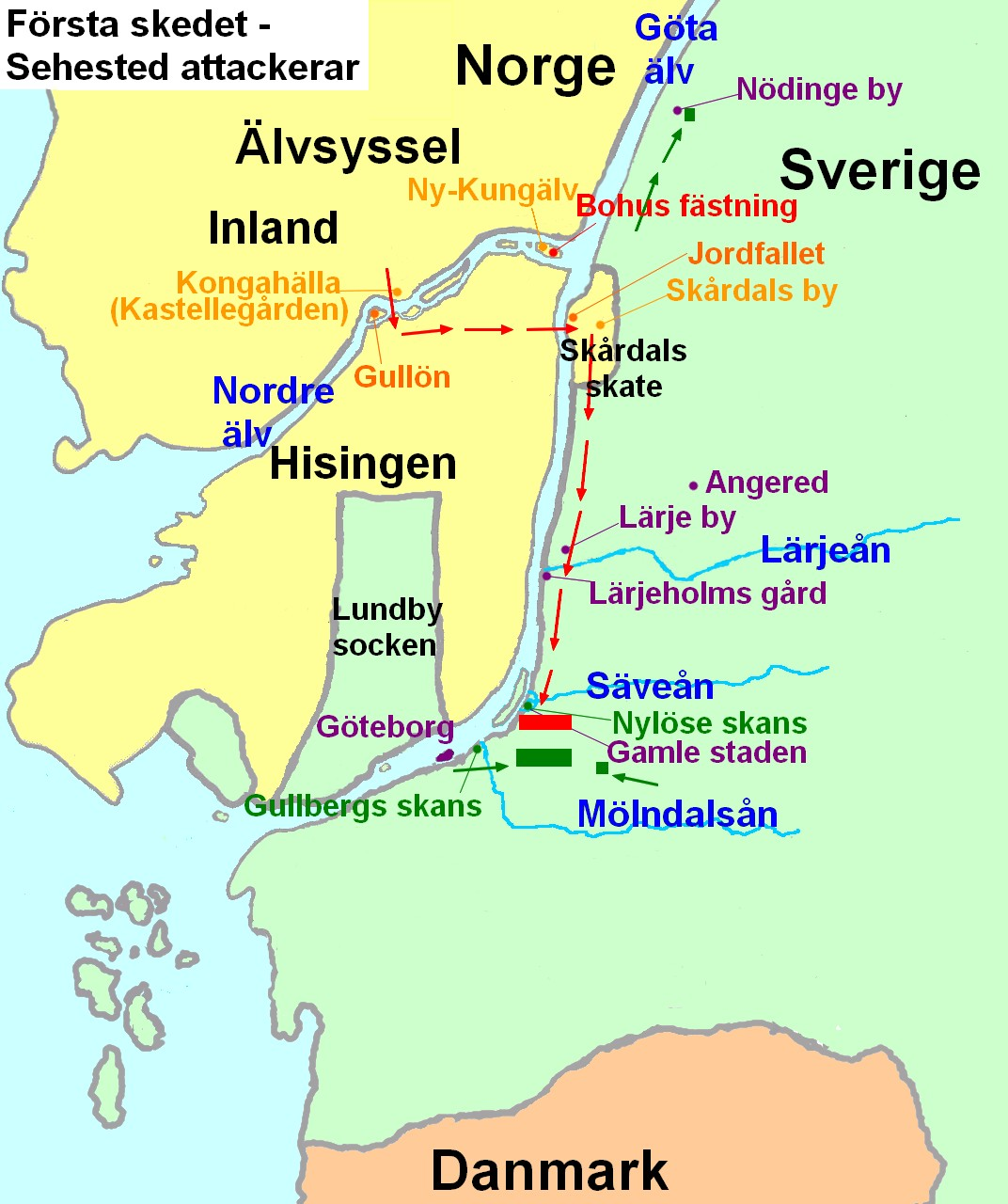 Movements during the first phase of the Battle at Ranängen, Sweden in August 1645. Swedish in green colour, and Nowegian-Danish in red.